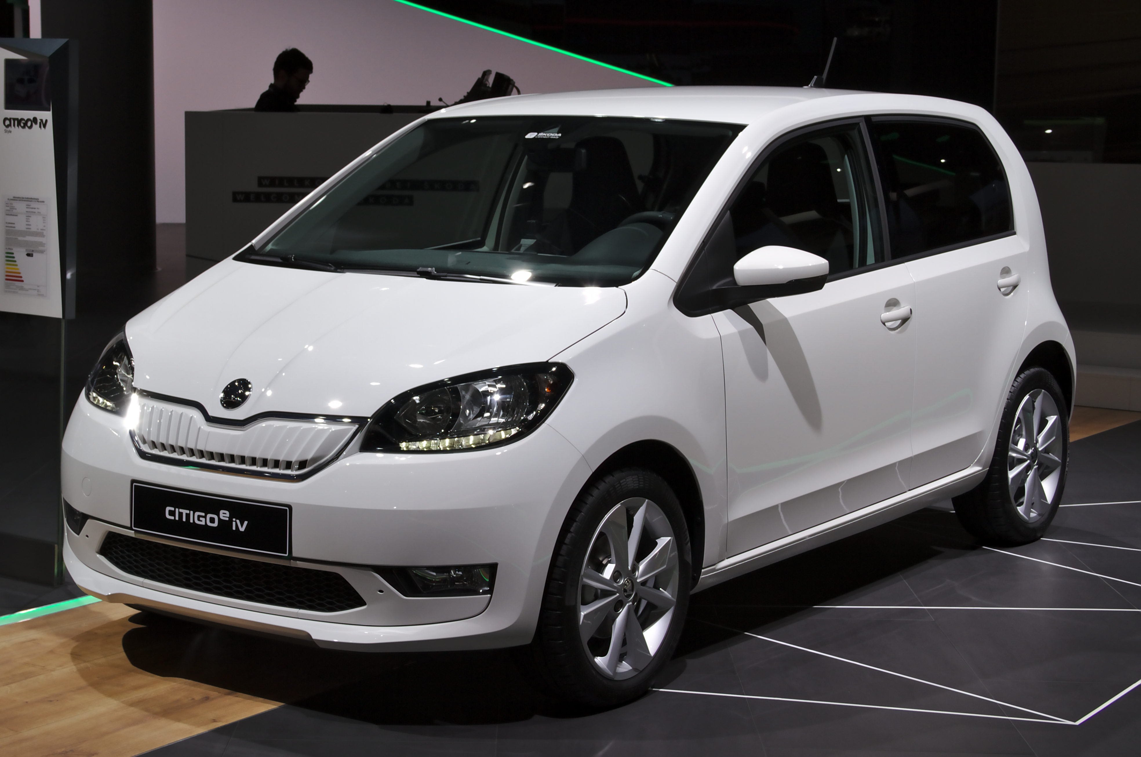 Škoda_Citigo-e_iV at IAA 2019